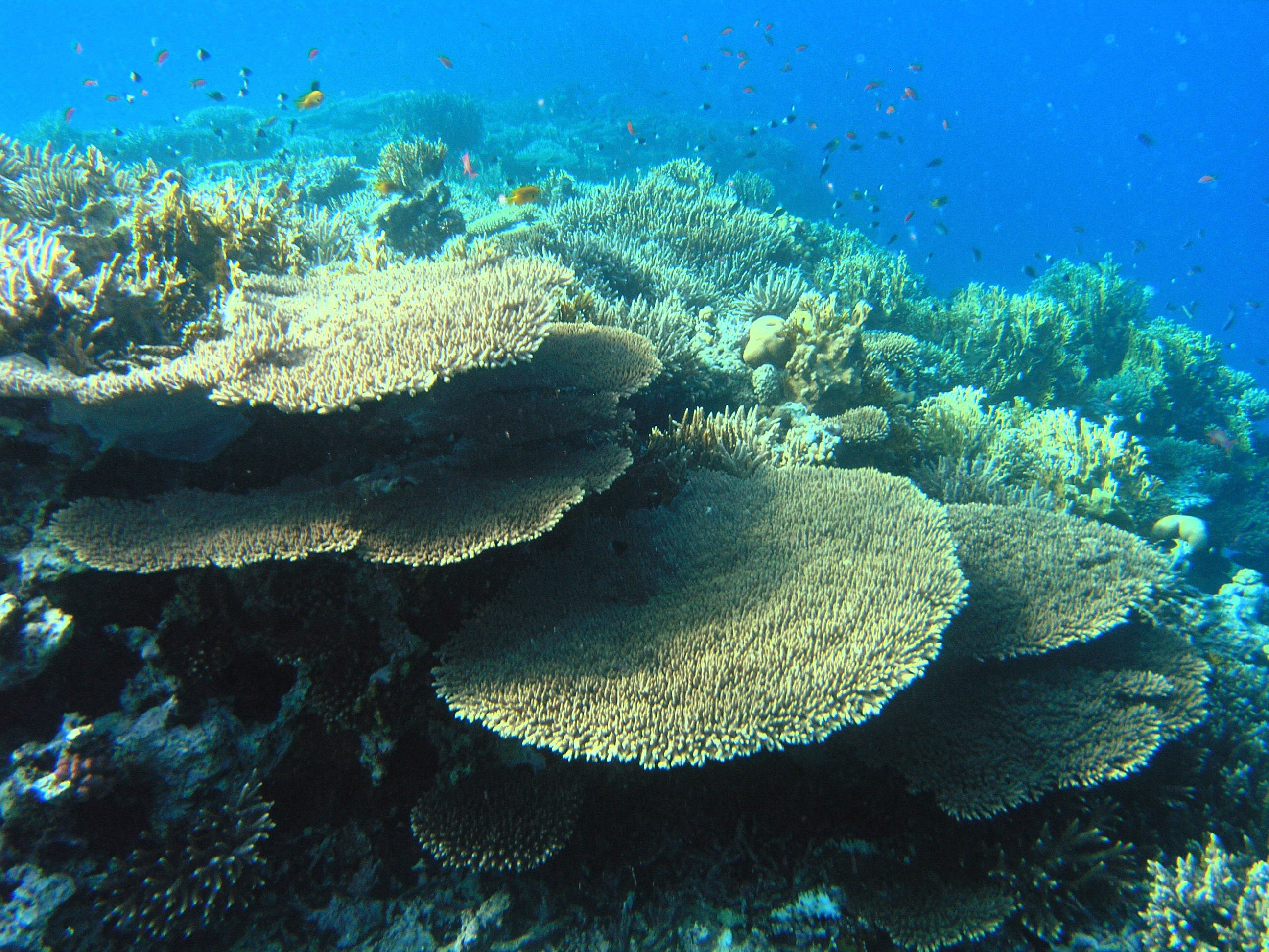 Egypt: Coral Reef in the Southern Red Sea region.